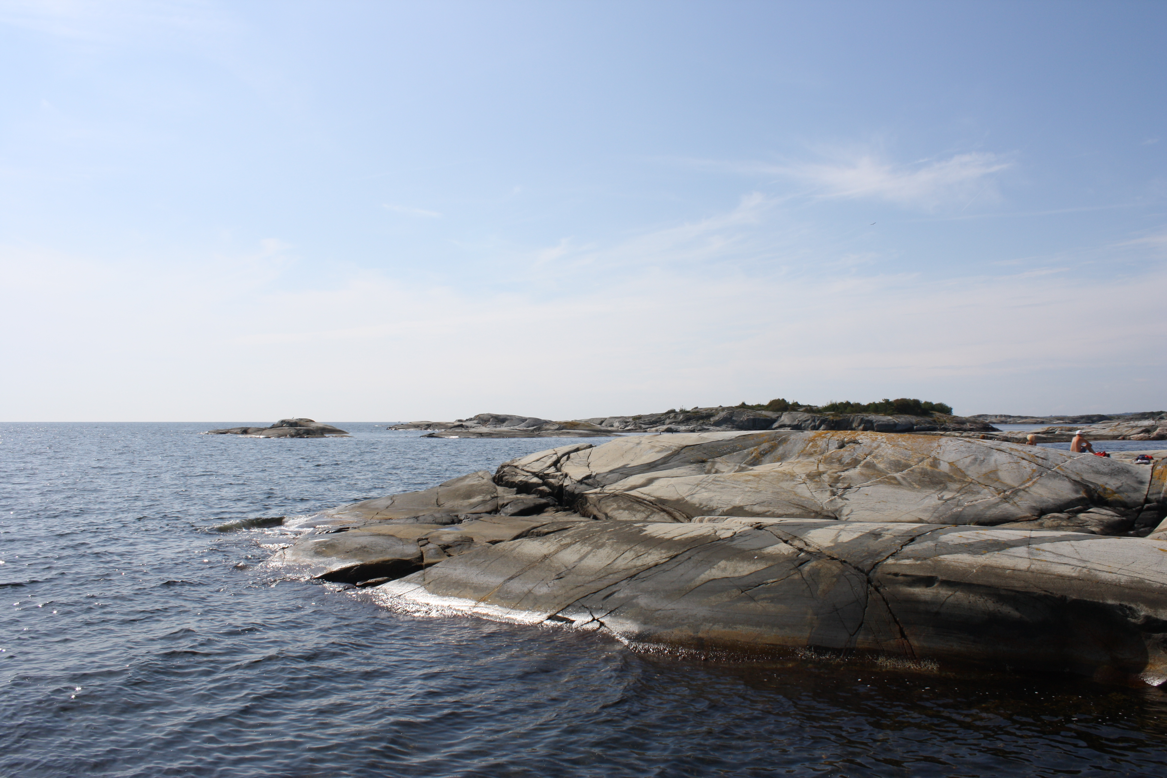 The sea outside Portør Pensjonat